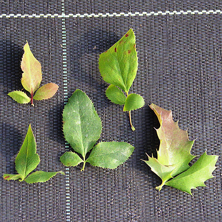 + Mahoberberis 'Neubertii'